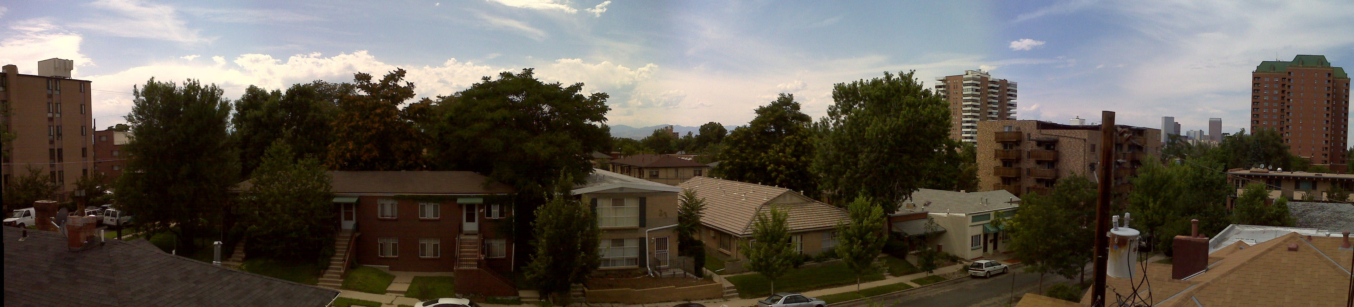 View from the center of the Speer Neighborhood near Clarkson and Ellsworth. Downtown Denver to the northwest.